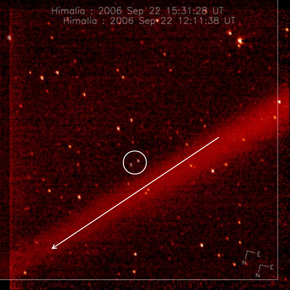 New Horizons image of the possible Himalia ring.